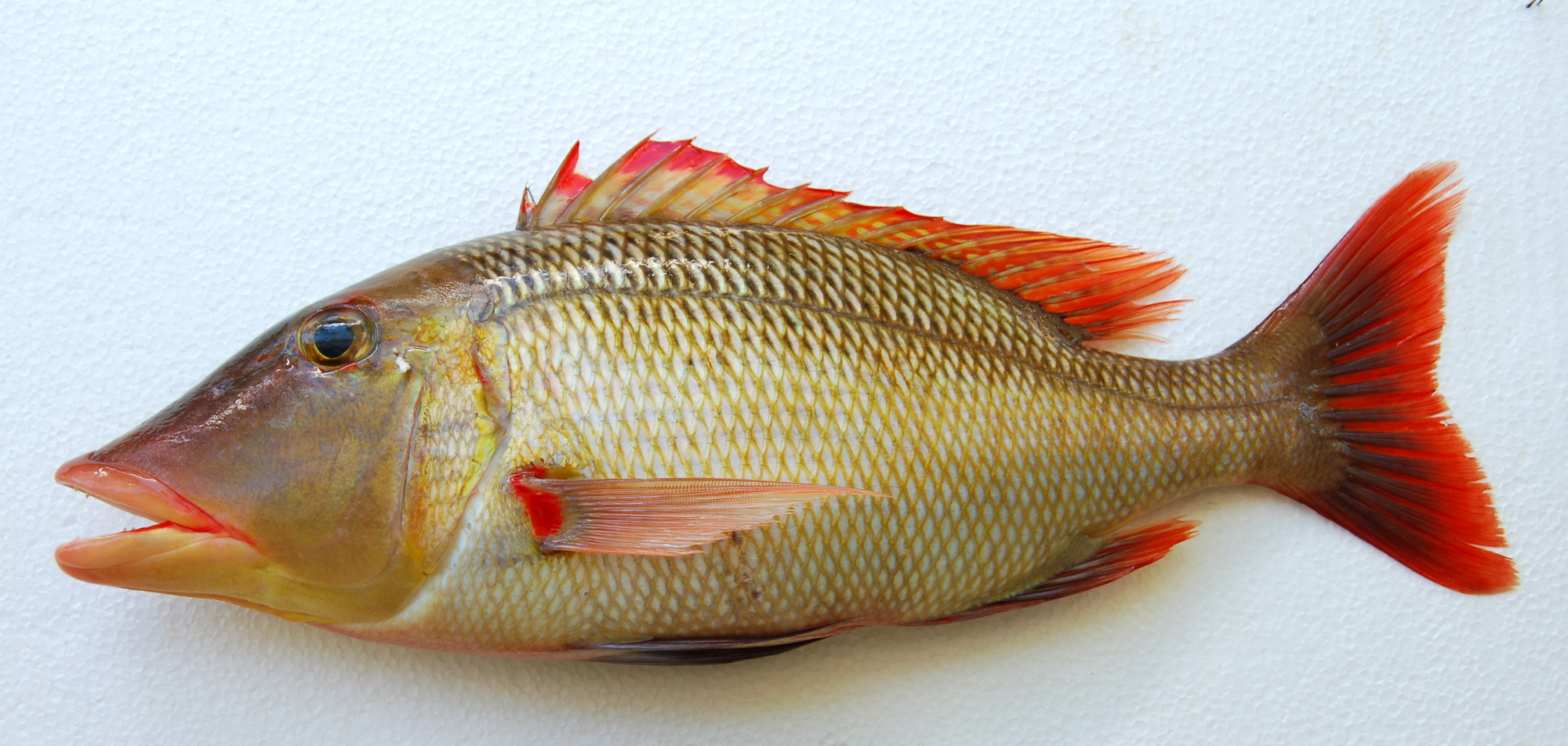 Lethrinus miniatus. Collected off Nouméa, New Caledonia.